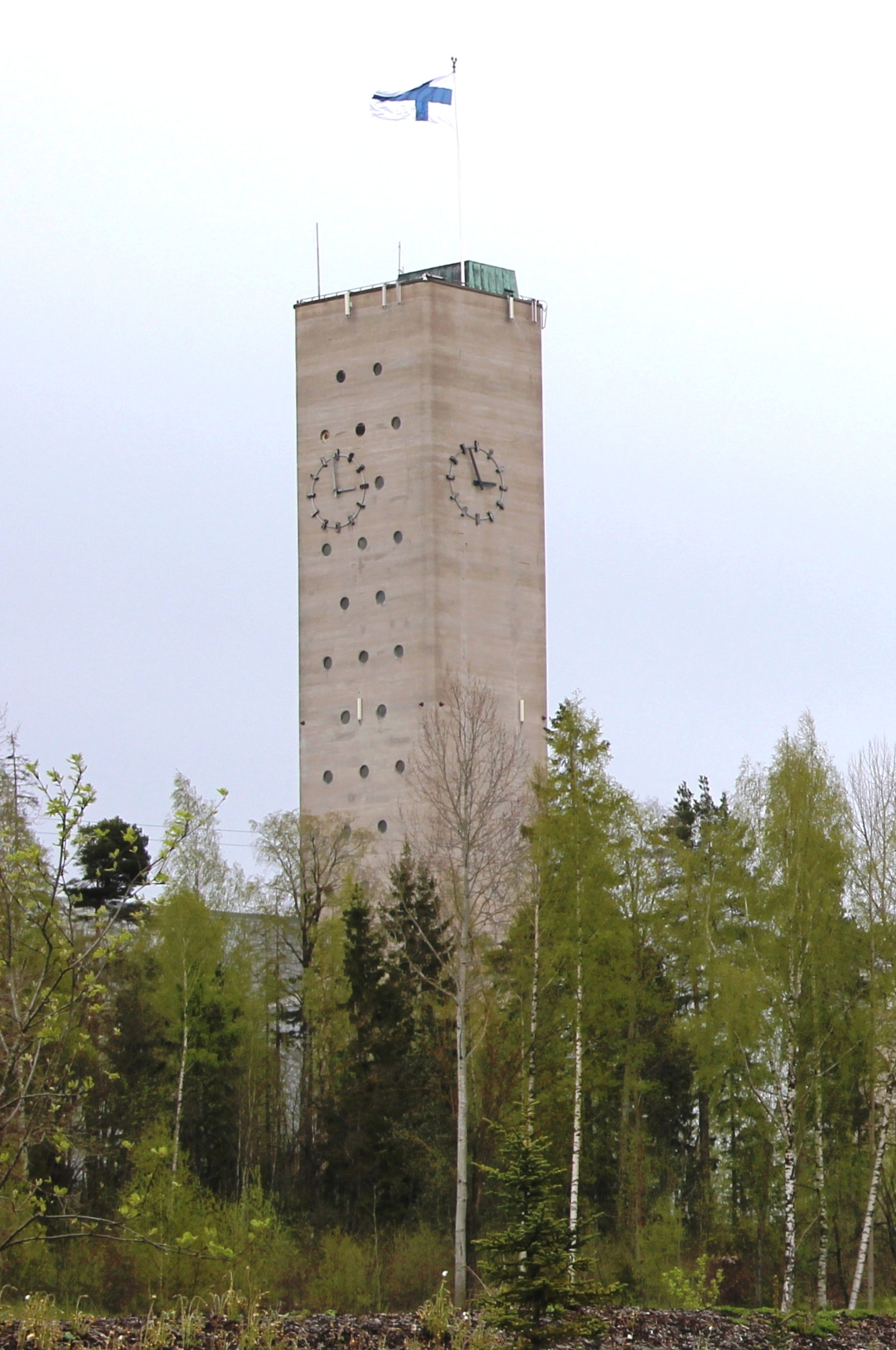 Tytyri Limestone Mine in Lohja Finland